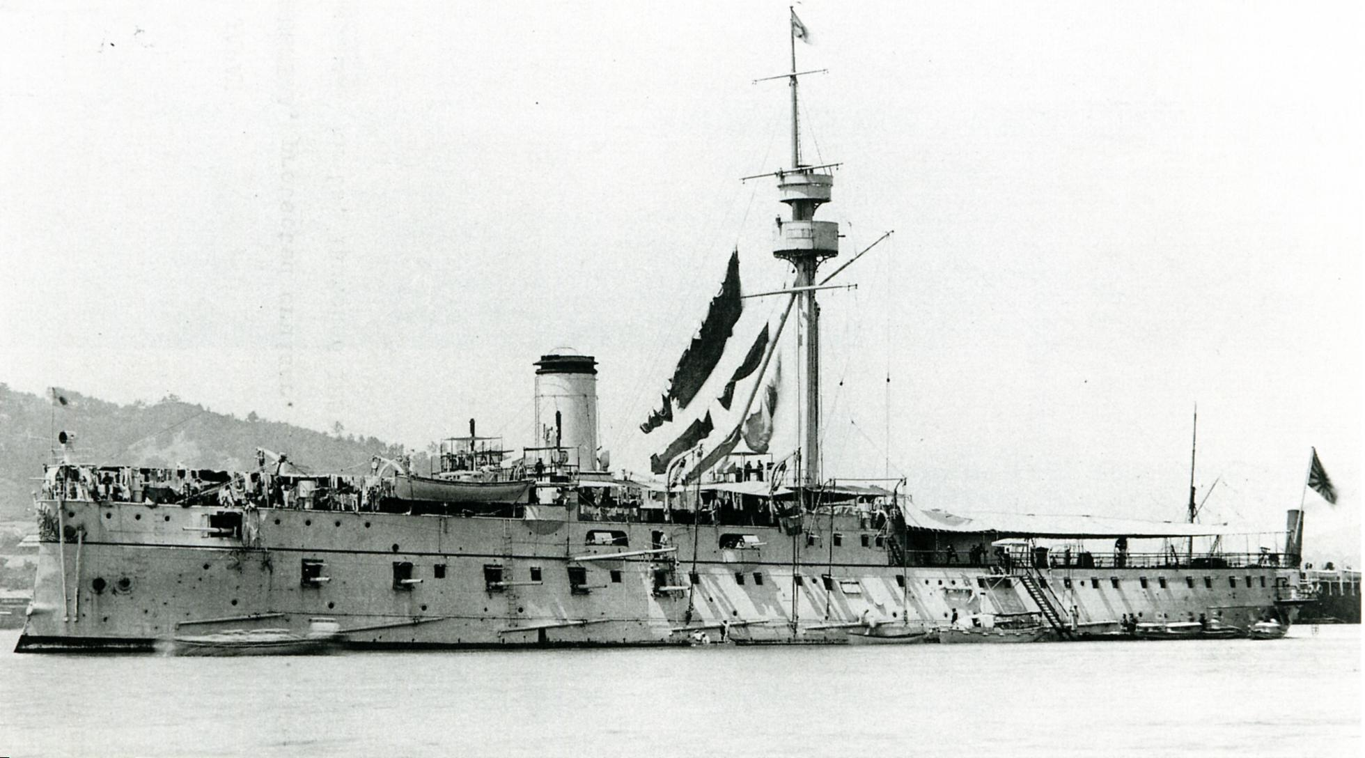 Japanese cruiser Matsushima 1896